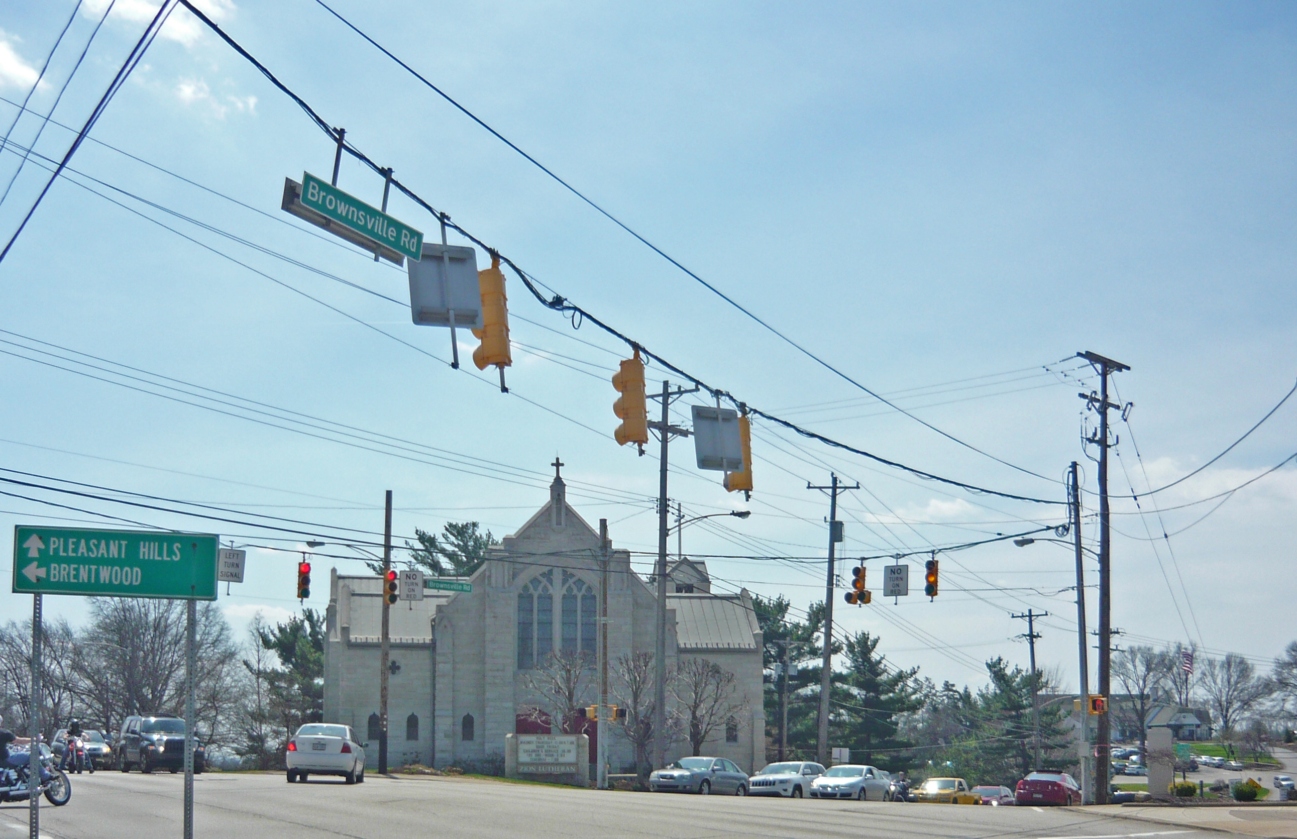 Intersection of Brownsville Road and Clairton Blvd. (Route 51), Brentwood, Allegheny County, Pennsylvania. View is toward the south. Zion Lutheran Church (built 1955, 4301 Brownsville Road) is in the background.